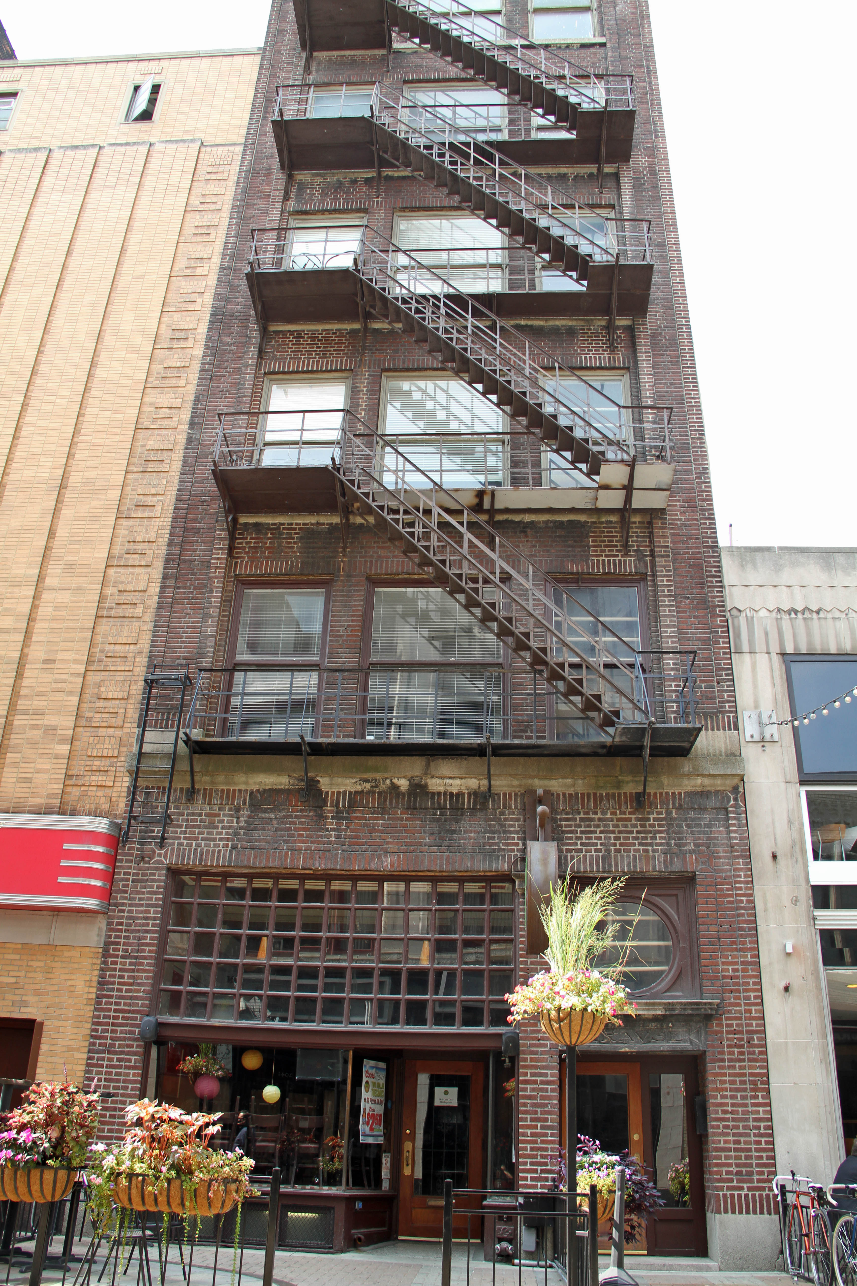 Krause Building-Otto Moser's Cafe